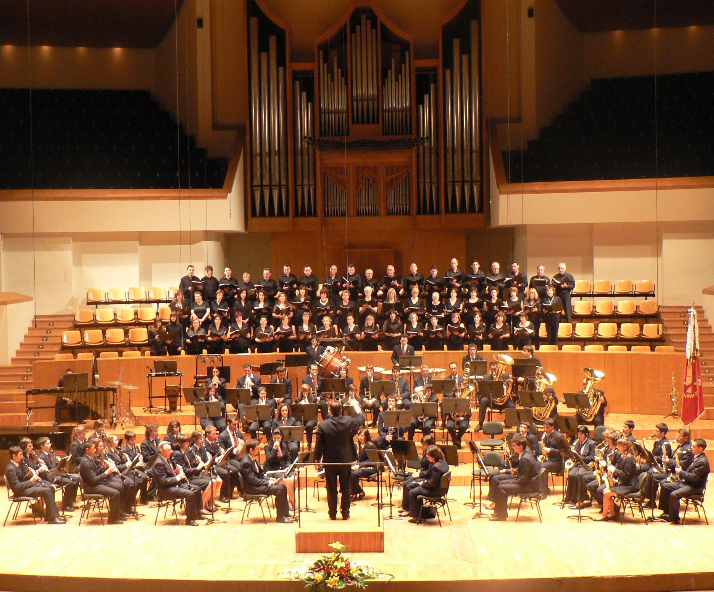 La Banda de Música Campanar en el Palau de la Música de Valencia